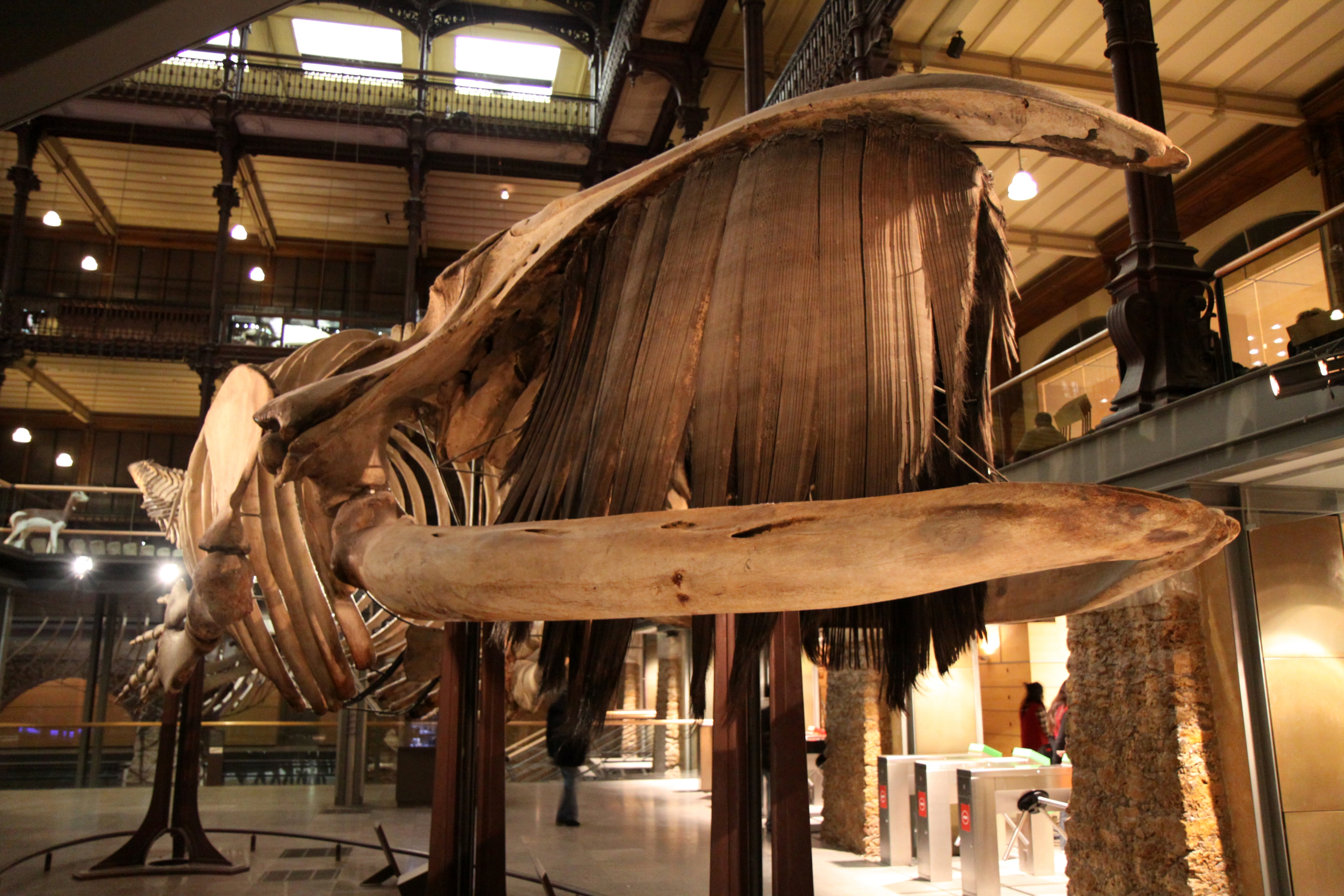 Southern right whale skeleton (Eubalaena australis) at the Gallery of Evolution (grande galerie de l'Évolution), which is a zoology museum building belonging to the French National Museum of Natural History. The Gallery of Evolution's building is located in the Jardin des plantes in Paris.